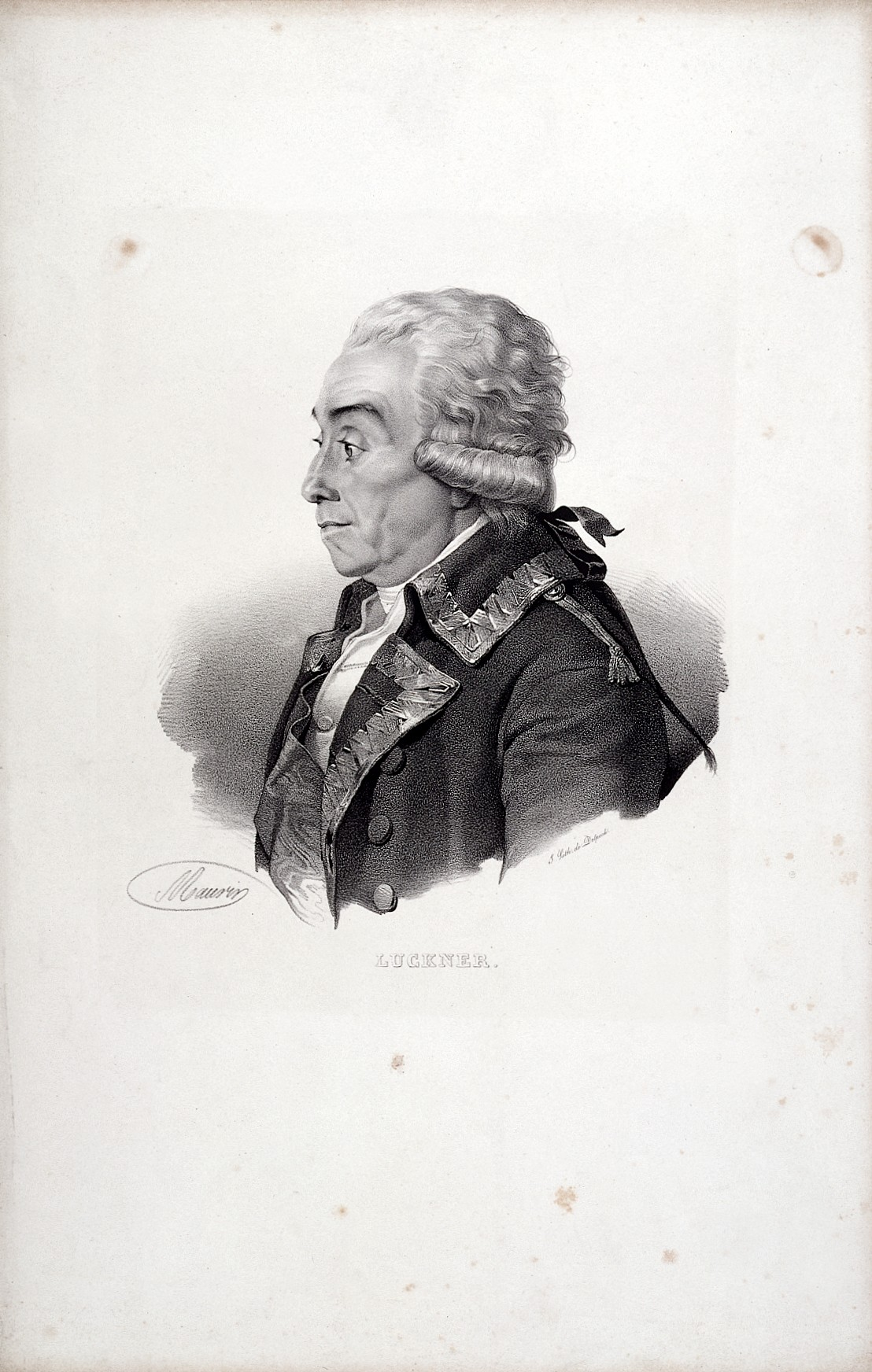 Nicolas Luckner, Baron de Luckner. Iconographic Collections Keywords: Nicolas Luckner; Francois Seraphin Delpech; François Séraphin Delpech; Nicolas-Eustache Maurin